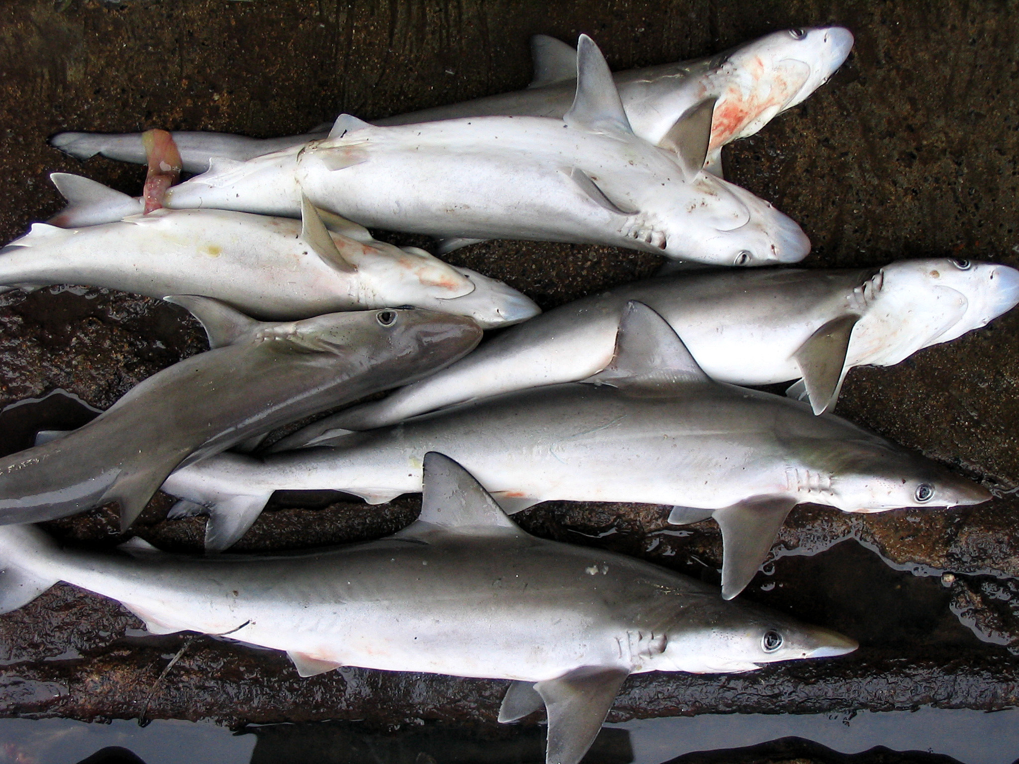 Milk sharks (Rhizoprionodon acutus) on a wharf in Mangalore, Karnataka, India